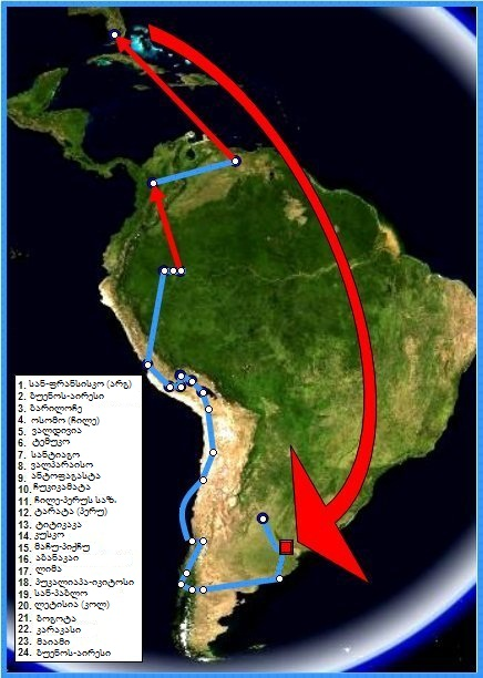 Map of the first voyage of Ernesto Guevara and Alberto Granado. 1952. Red arrows correspond to travel by airplane.